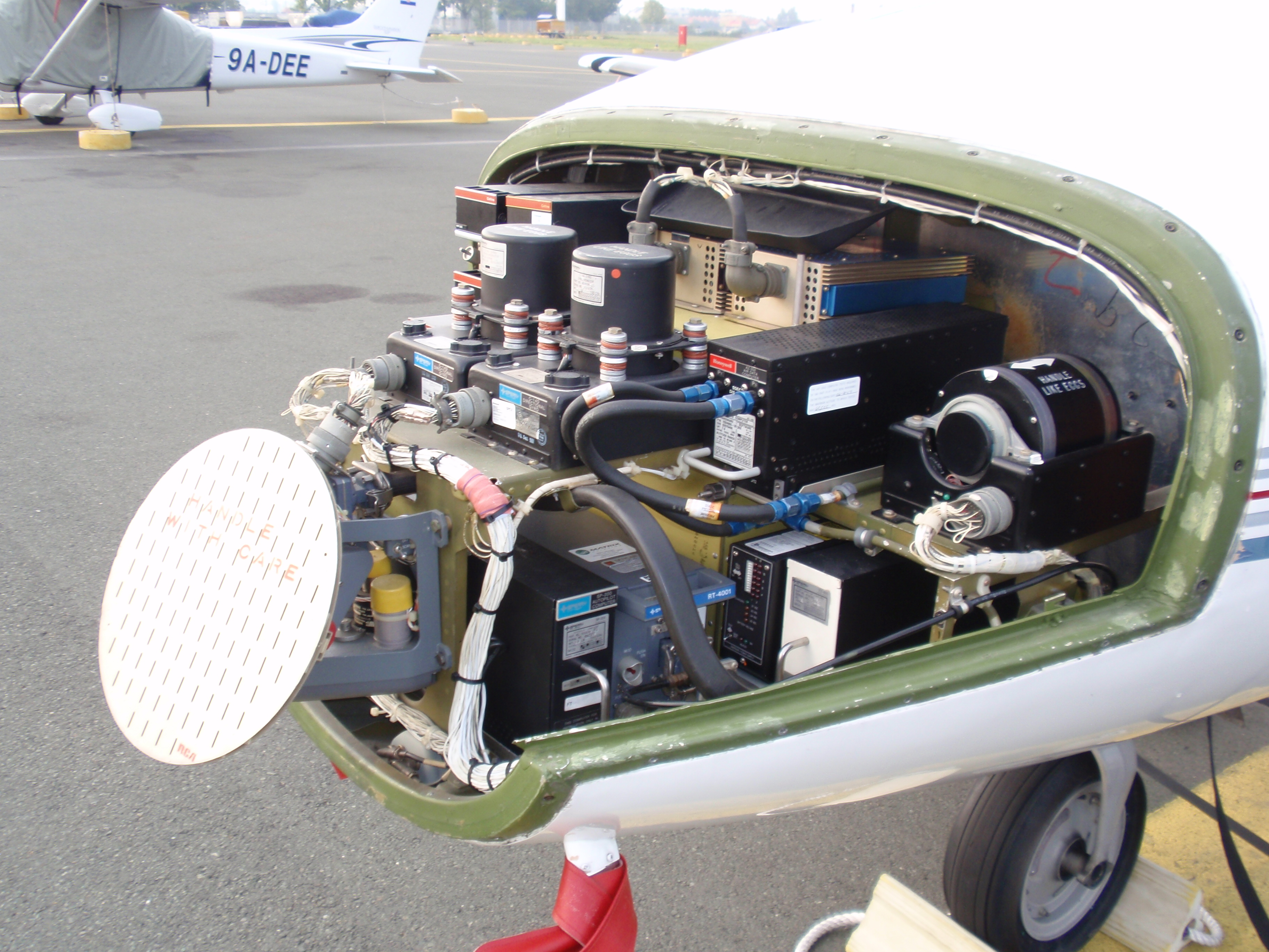 Radar on Cessna 501 Citation (9A-CHC)